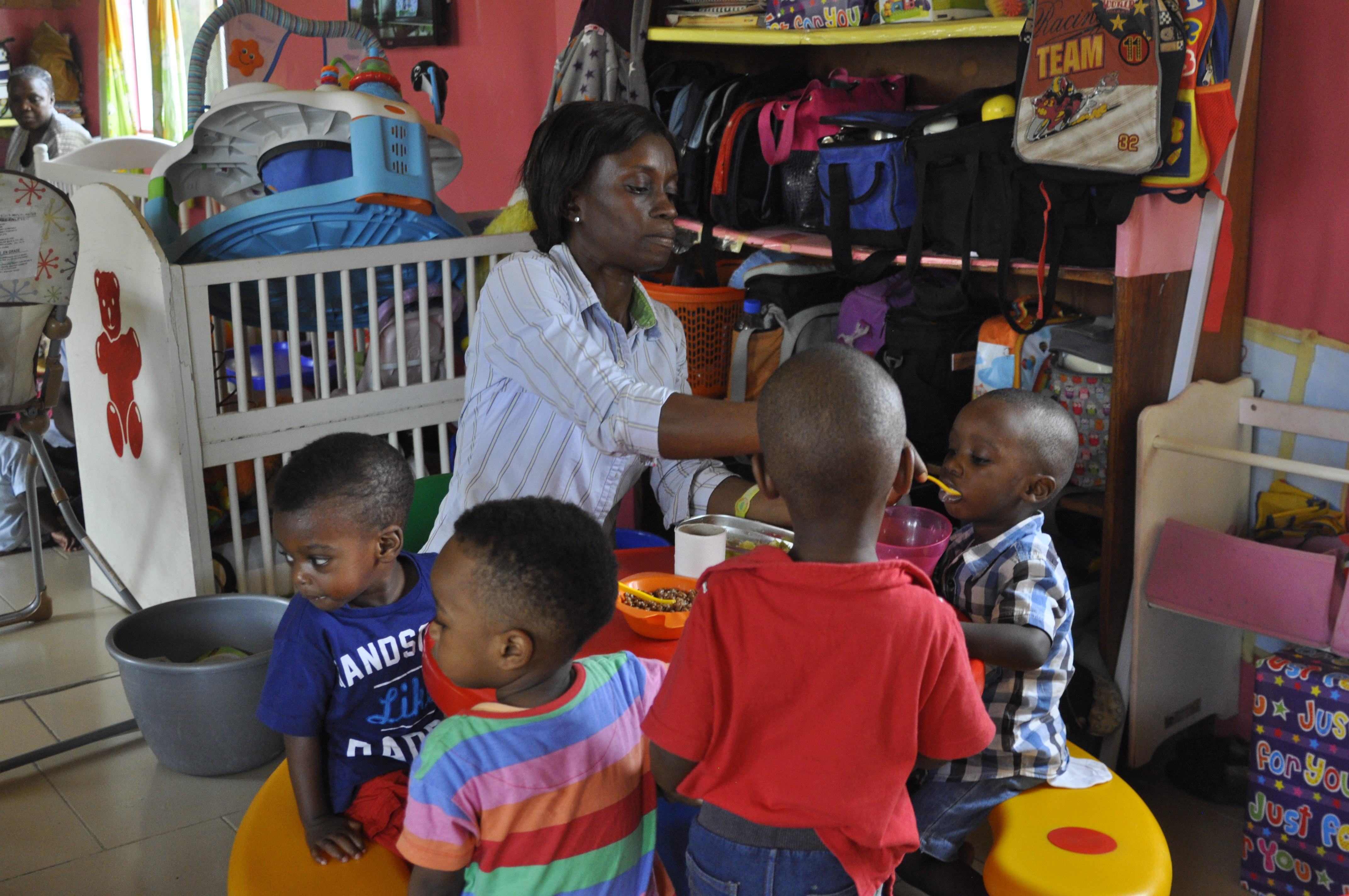 This is an image of "African people at work" from Nigeria